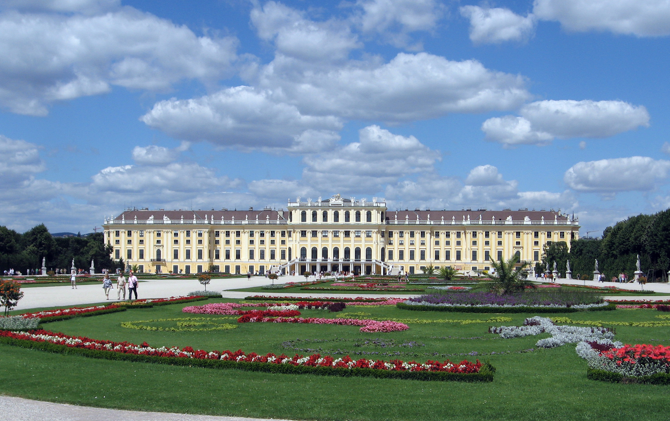 Schönbrunn Palace, Vienna